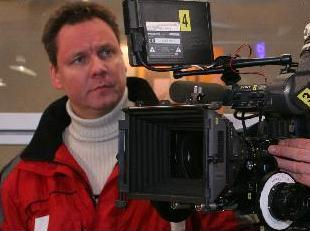 Armin Ulrich